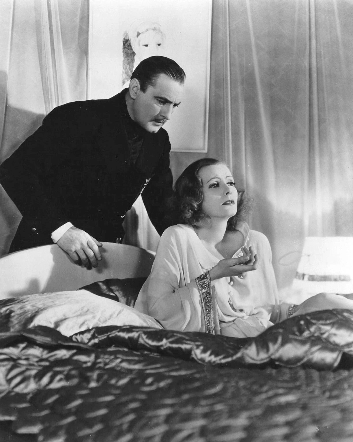 Scene from the 1932 film Grand Hotel picturing Greta Garbo and John Barrymore.